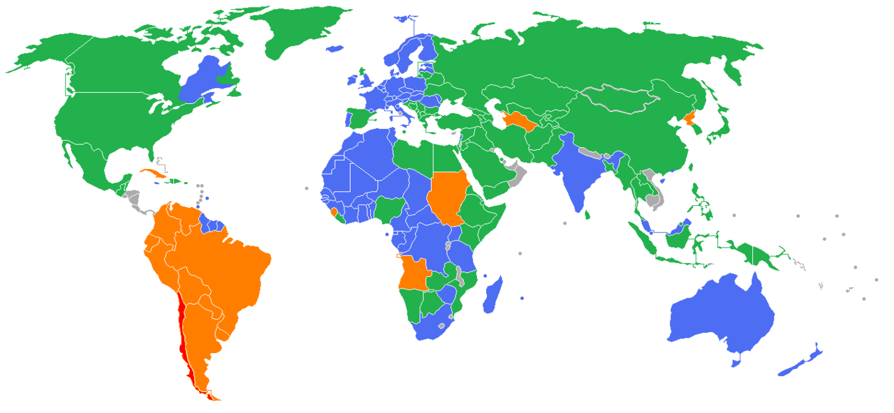 Shows how long it takes for typical students in various countries to get a Bachelor of Science. Three years Four years Five years Six years